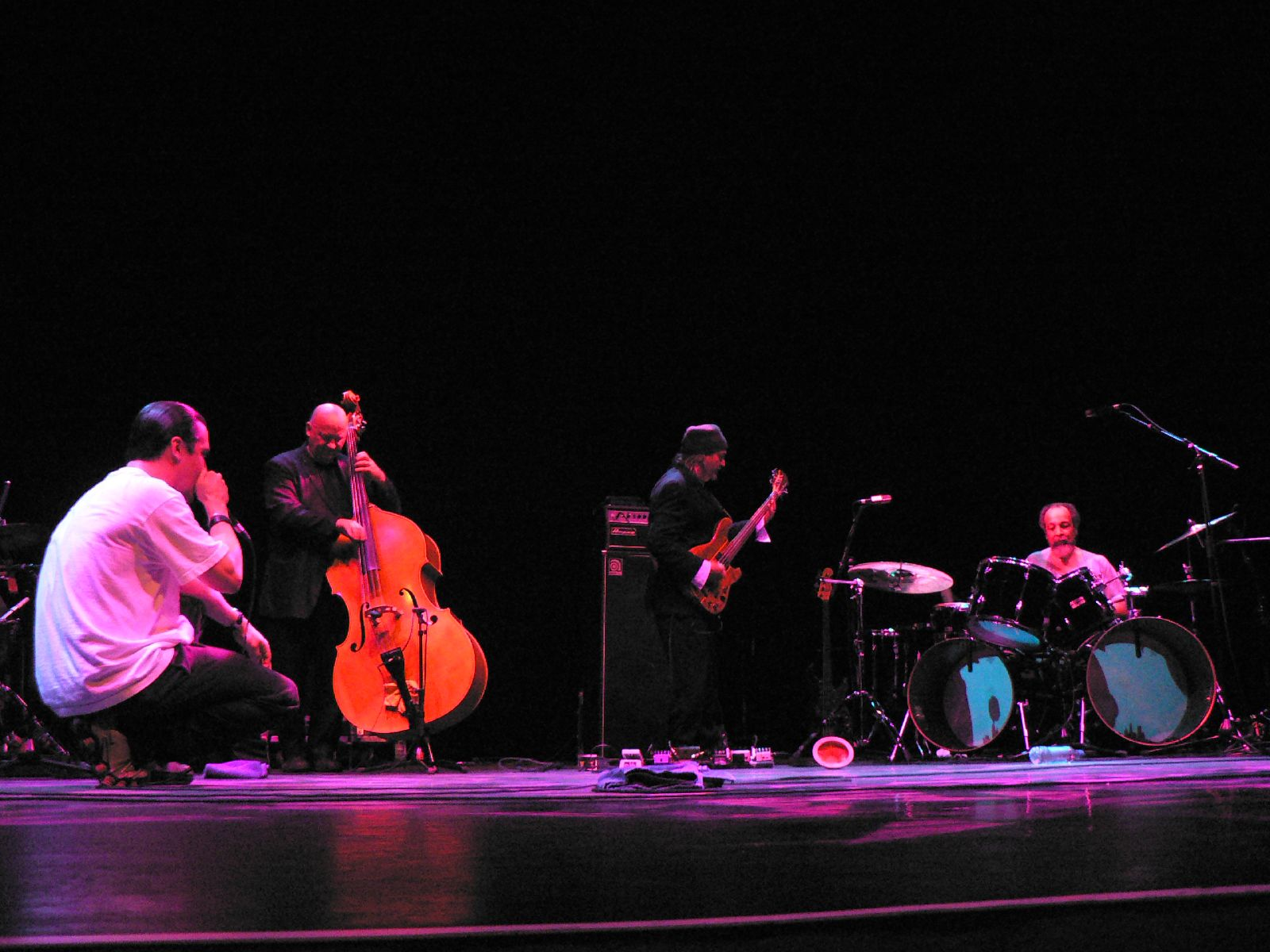 Zorn at the Barbican Tribute to Derek Bailey